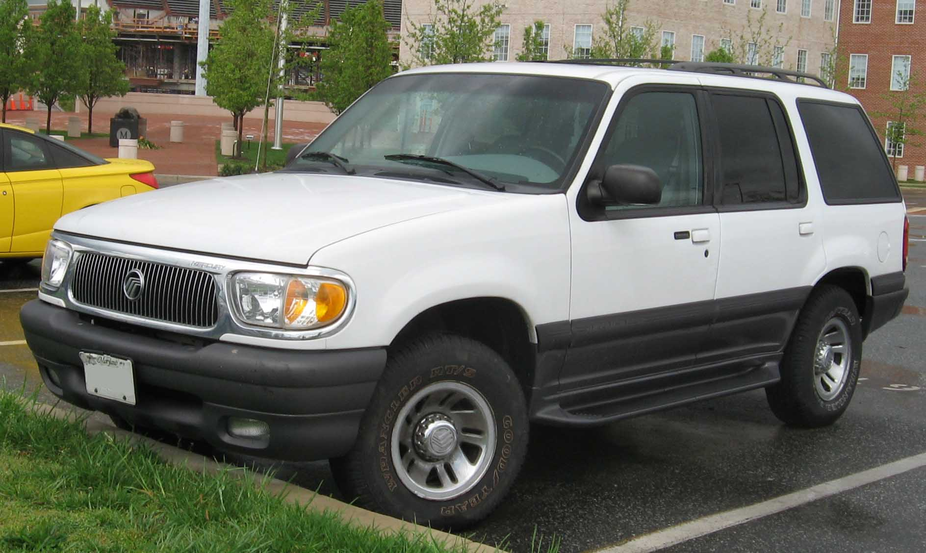 1998-2001 Mercury Mountaineer photographed in College Park, Maryland, USA.